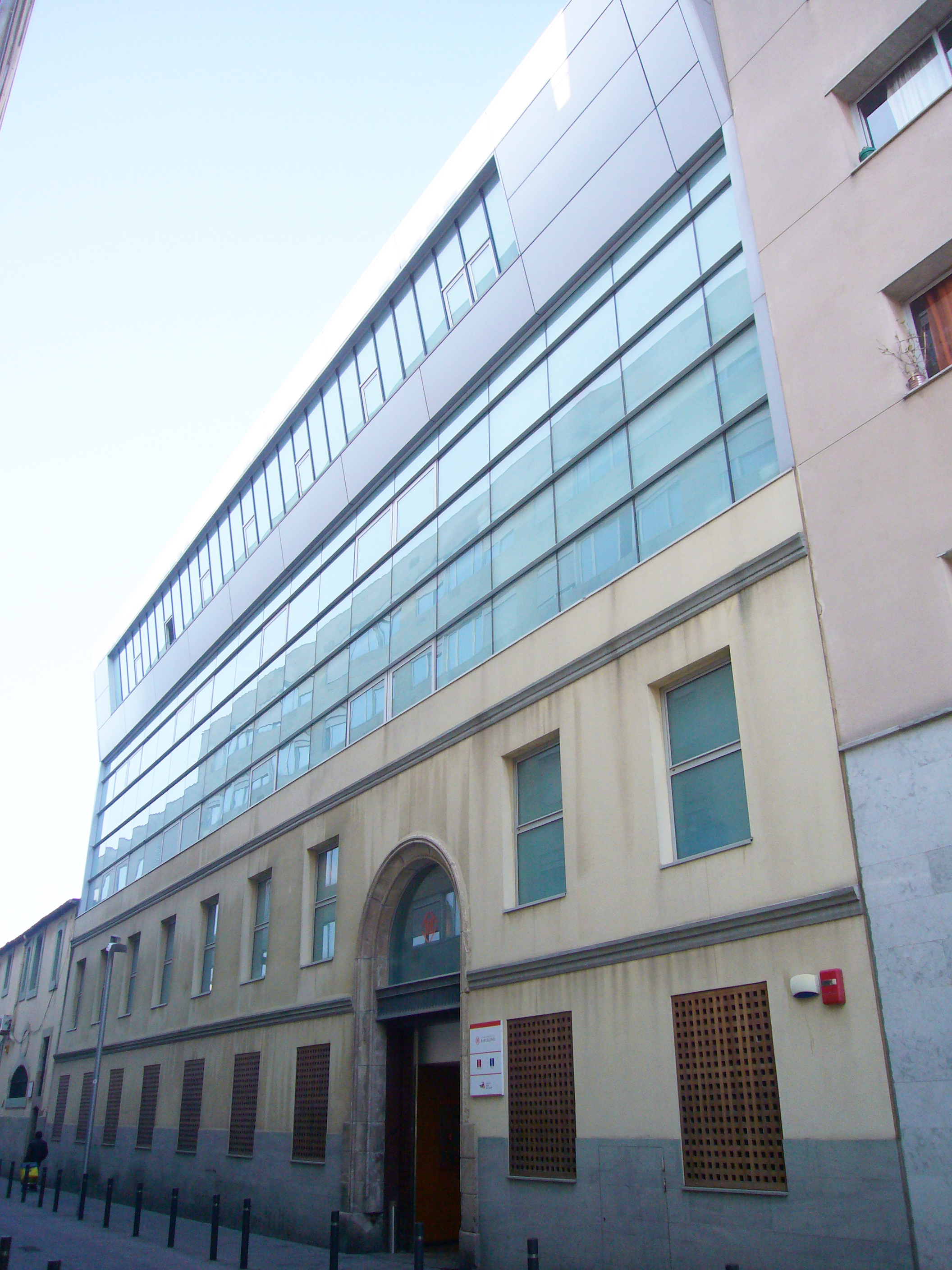 Consell Comarcal del Barcelonès, al carrer de les Tàpies